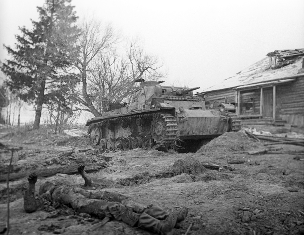 “German armor unit defeated in the vicinity of Skirmanovo village”. Defense of Moscow. German armor unit defeated in the vicinity of Skirmanovo village. 1941. The Great Patriotic War of 1941-1945.